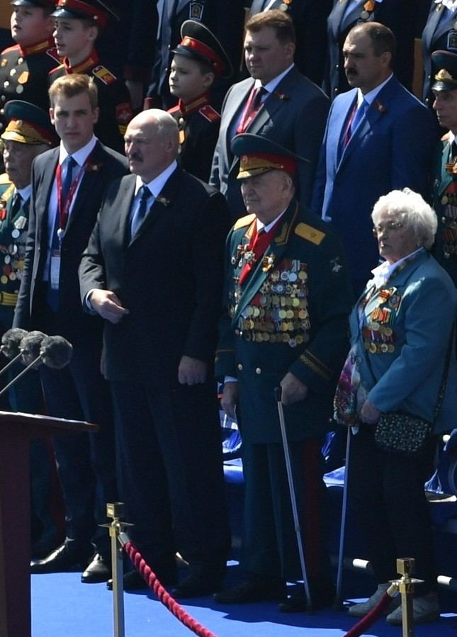 2020 Moscow Victory Day Parade Аҧсшәа: Военный парад на Красной площади в Москве 24 июня 2020 года